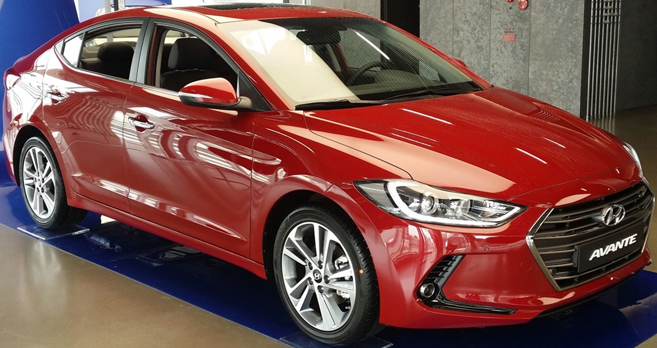 Hyundai Avante